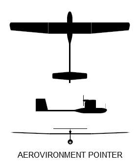 FQM-151A Pointer